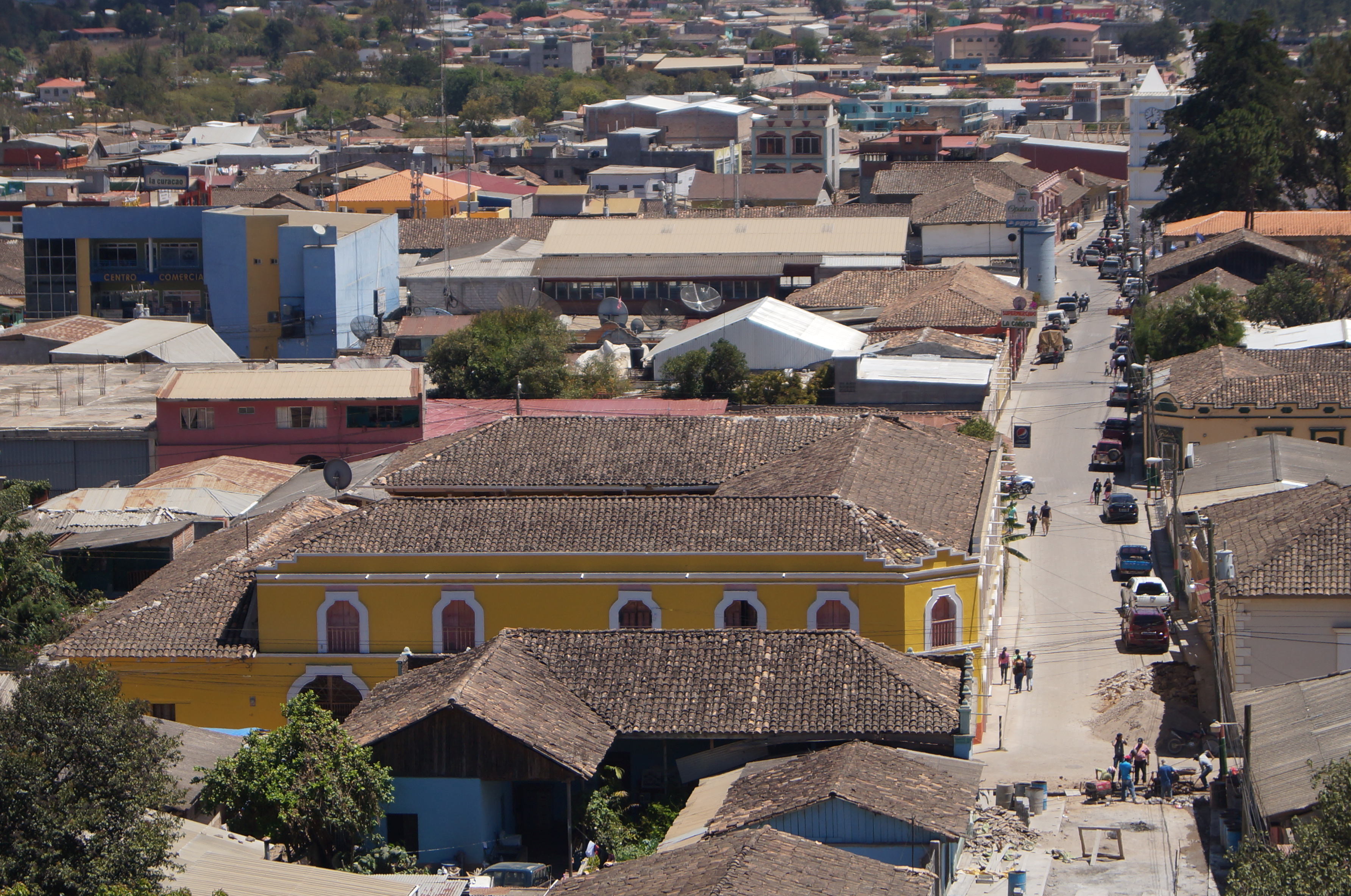 City of La Esperanza Intibuca Honduras